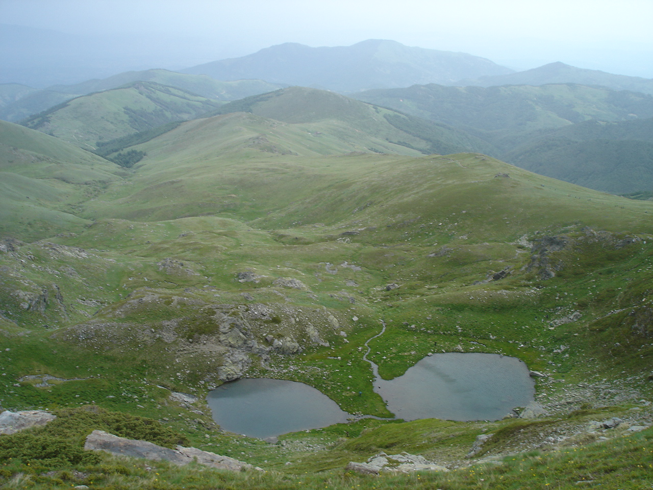 Salakovi glacial lakes, on Mokra (Karadzica) mountain range, Macedonia